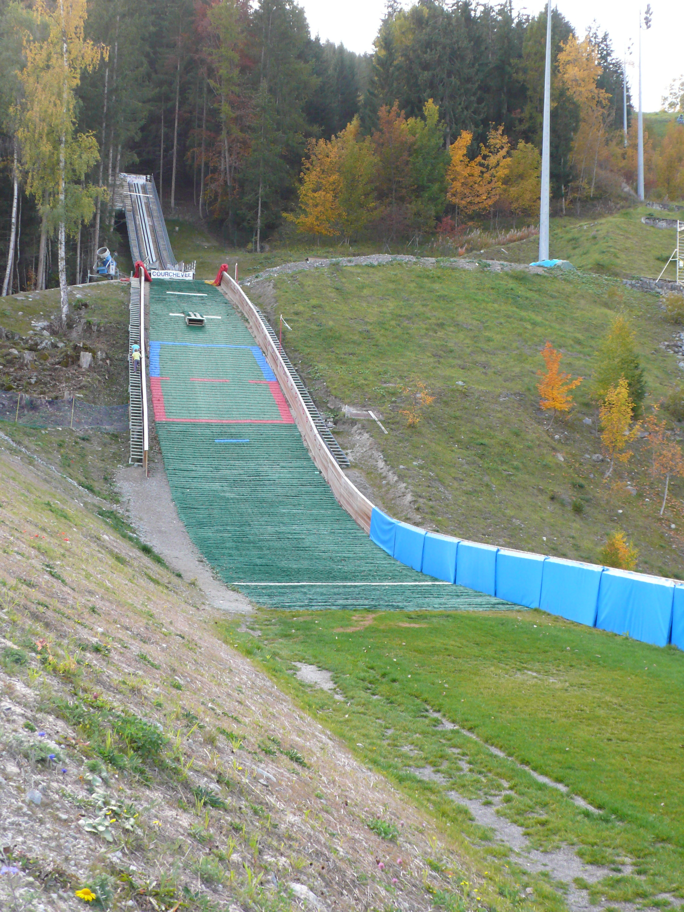 Le Praz - ski jumping hills in Courchevel : K25, built in 2008.